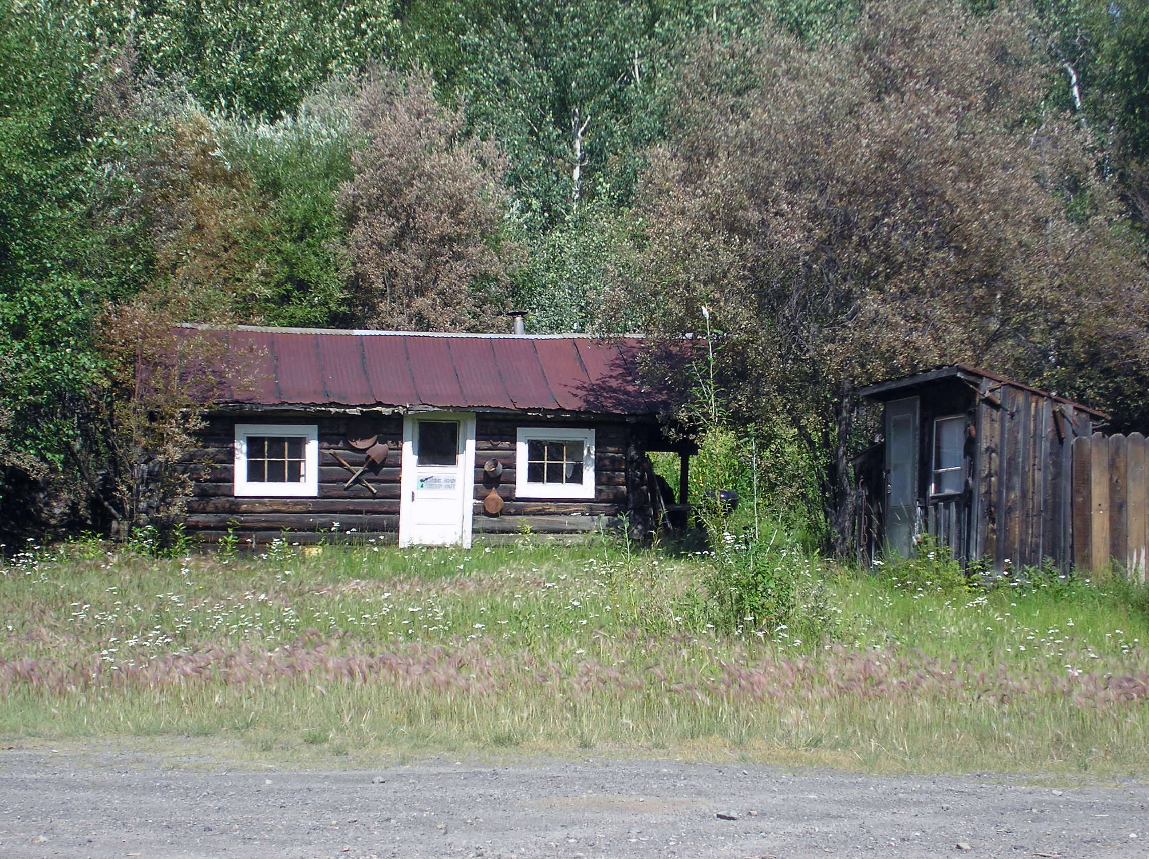 A cabin in Livengood, Alaska. Other than a few other cabins and an Alaska Department of Transportation and Public Facilities depot, there's nothing else in town.